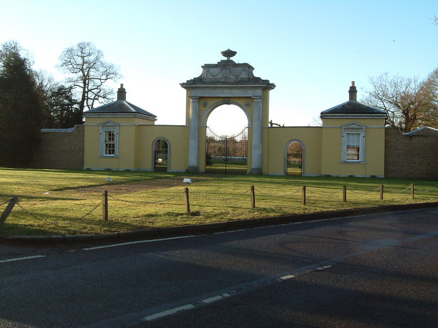 Dyrham Park : Entrance Gateway. As splendid a gatehouse as you'll find for many miles around. This is the former entrance to Dyrham Park which is now a Golf & Country Club.